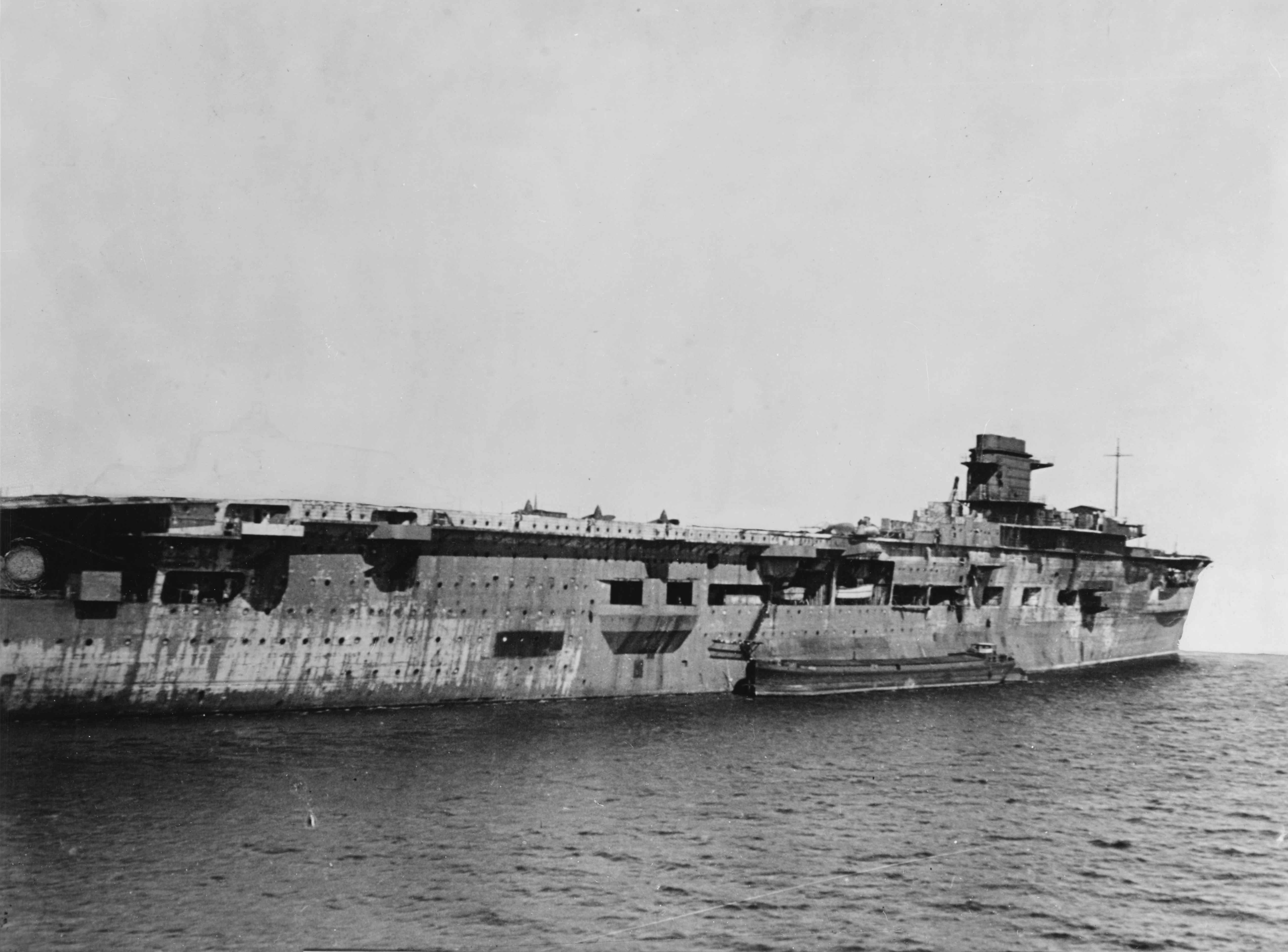 The former German aircraft carrier Graf Zeppelin on 5 April 1947 at Swinemünde (today Świnoujście, Poland) while in Soviet custody. The scuttled carrier had been refloated in March 1946 and was sunk as a target in the Baltic Sea on 16 August 1947.